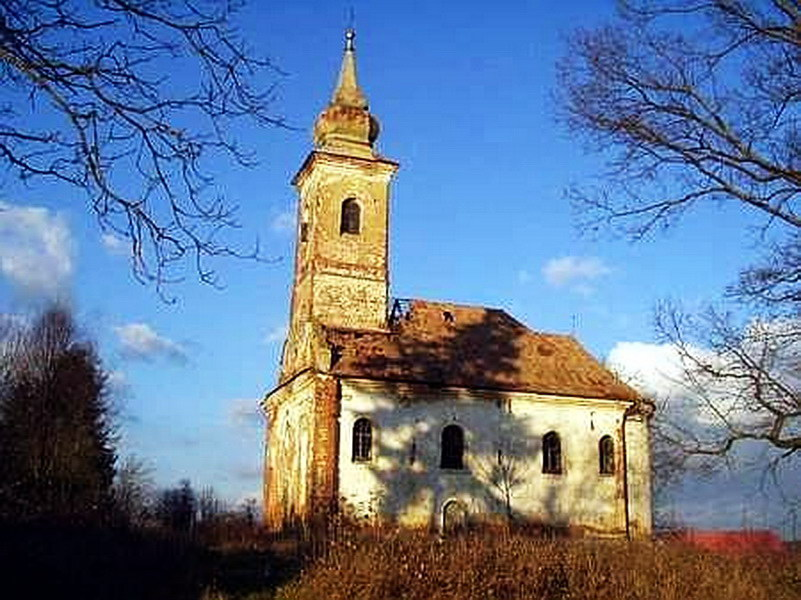 Bolč - Ruins of Church